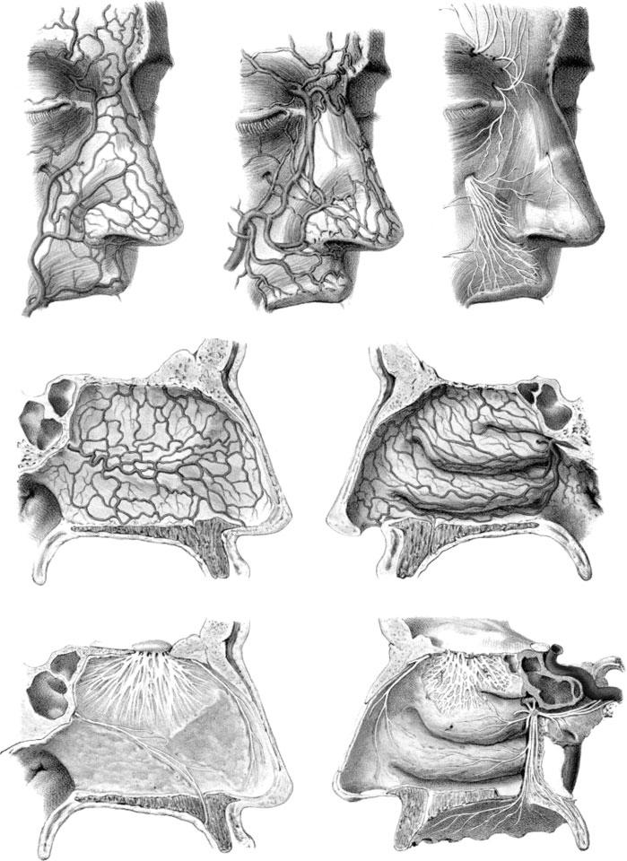 Anatomic plate from one of Ludwik Maurycy Hirschfeld's works, depicting nasal cavity’s blood supply and innervation.